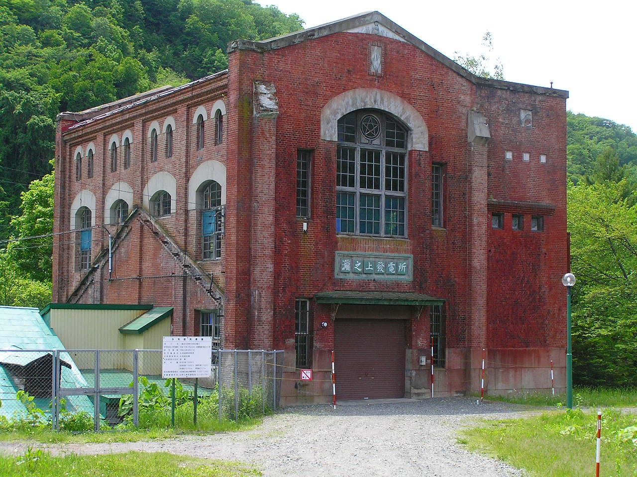 Takinoue Power Station main building